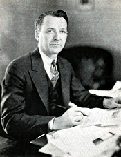 J. Mark Wilcox, US Representative from Florida